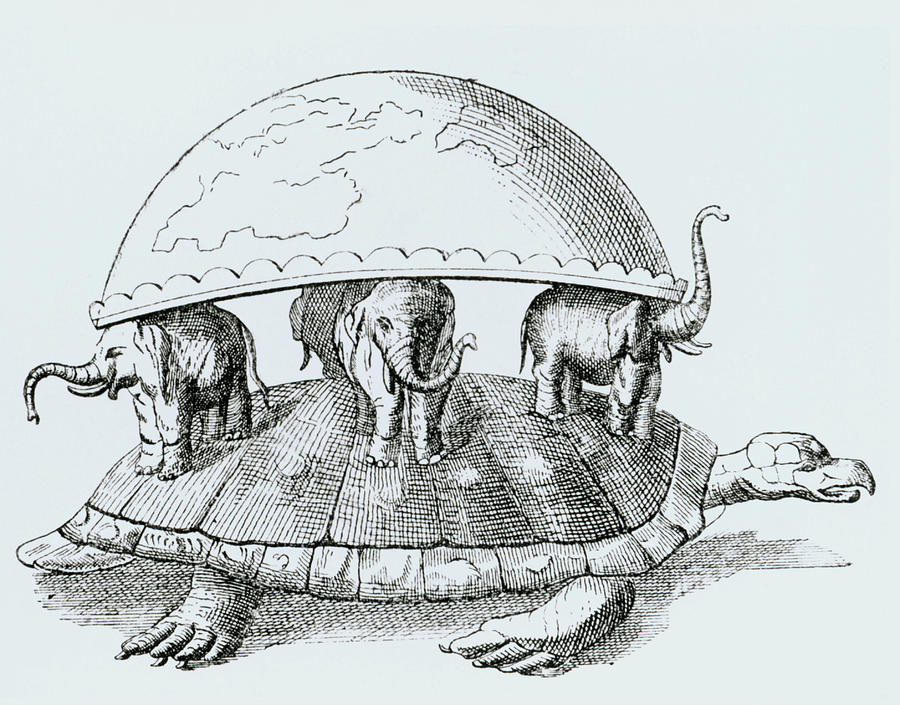 Vintage engraving showing a Hindu symbolical representation of the earth from Popular Science Monthly magazine, conducted by Edward Livingston Youmans.